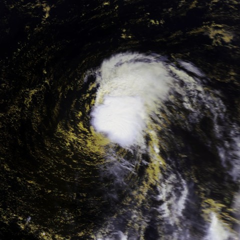 Tropical Storm Lingling on October 12 at approximately 2309 UTC. This image was produced from data from NOAA-17, provided by NOAA.